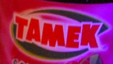 Tamek sour cherry nectar drink